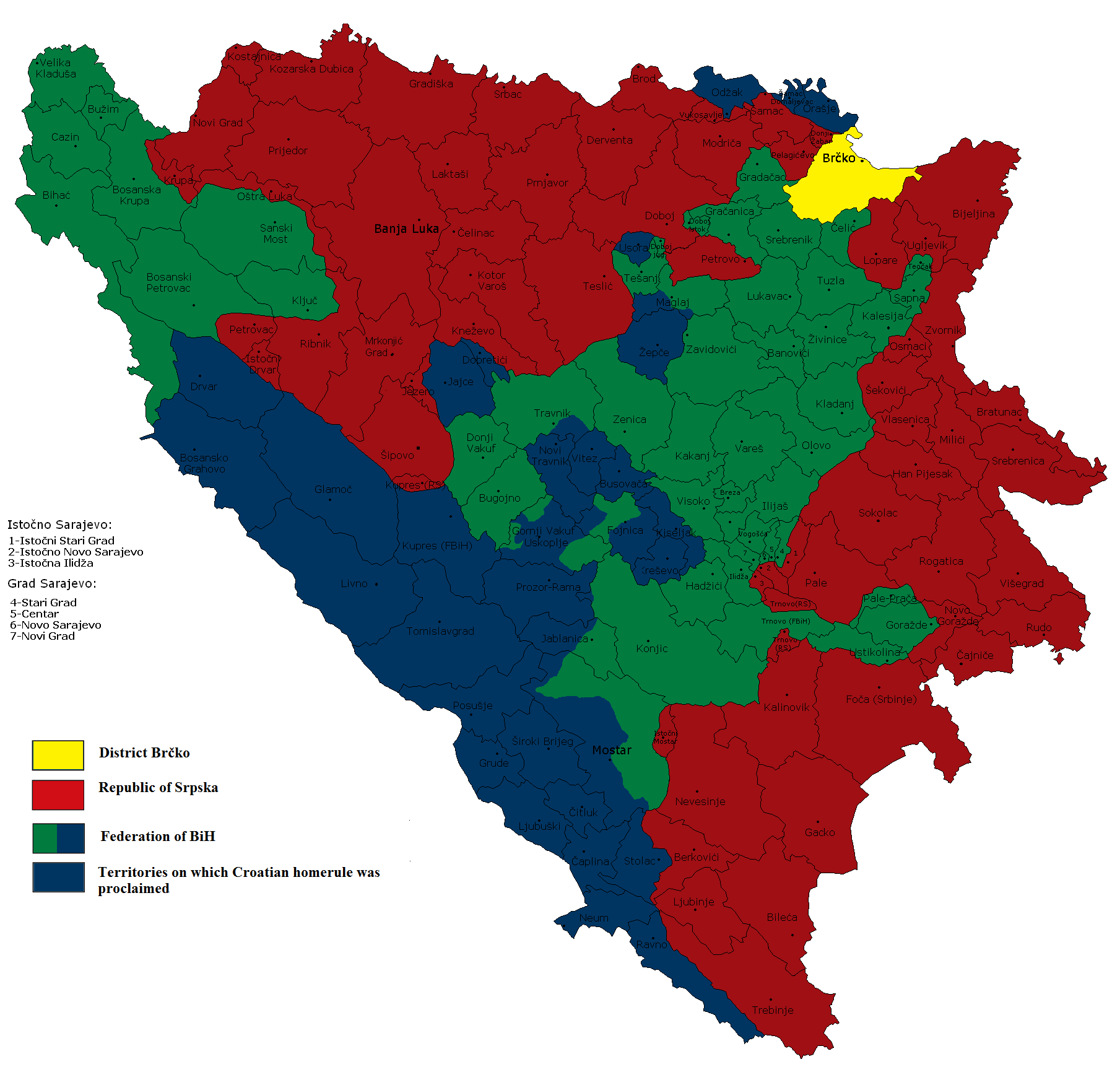 Territiories on which Croatian homerule was proclaimed